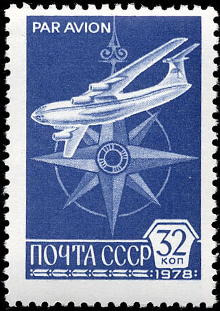 Stamp of the Soviet Union, 1978, CPA 4864.